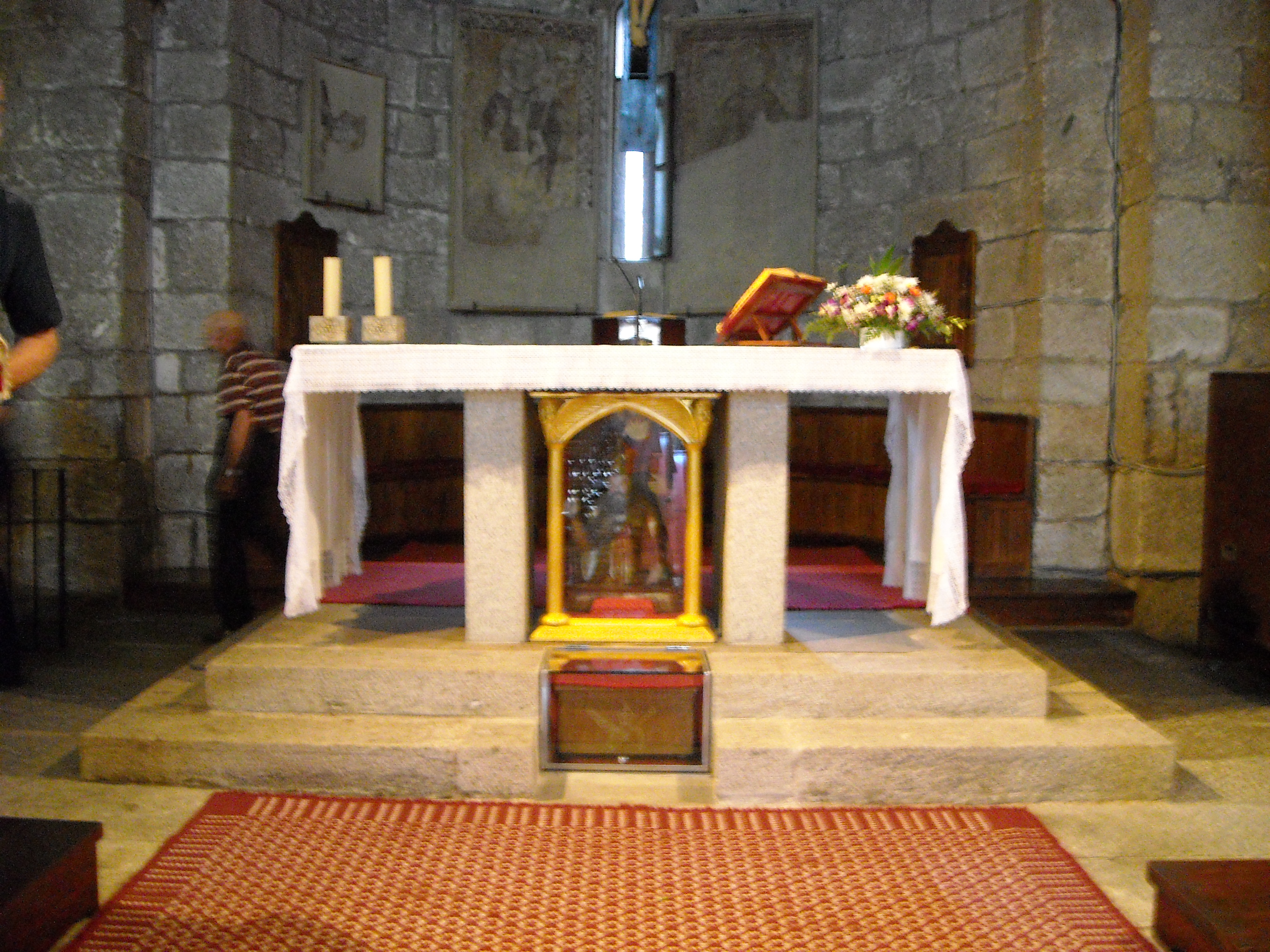 Altar and presbyterium of Basilica di San Simplicio in Olbia (Sardinia, Italy)